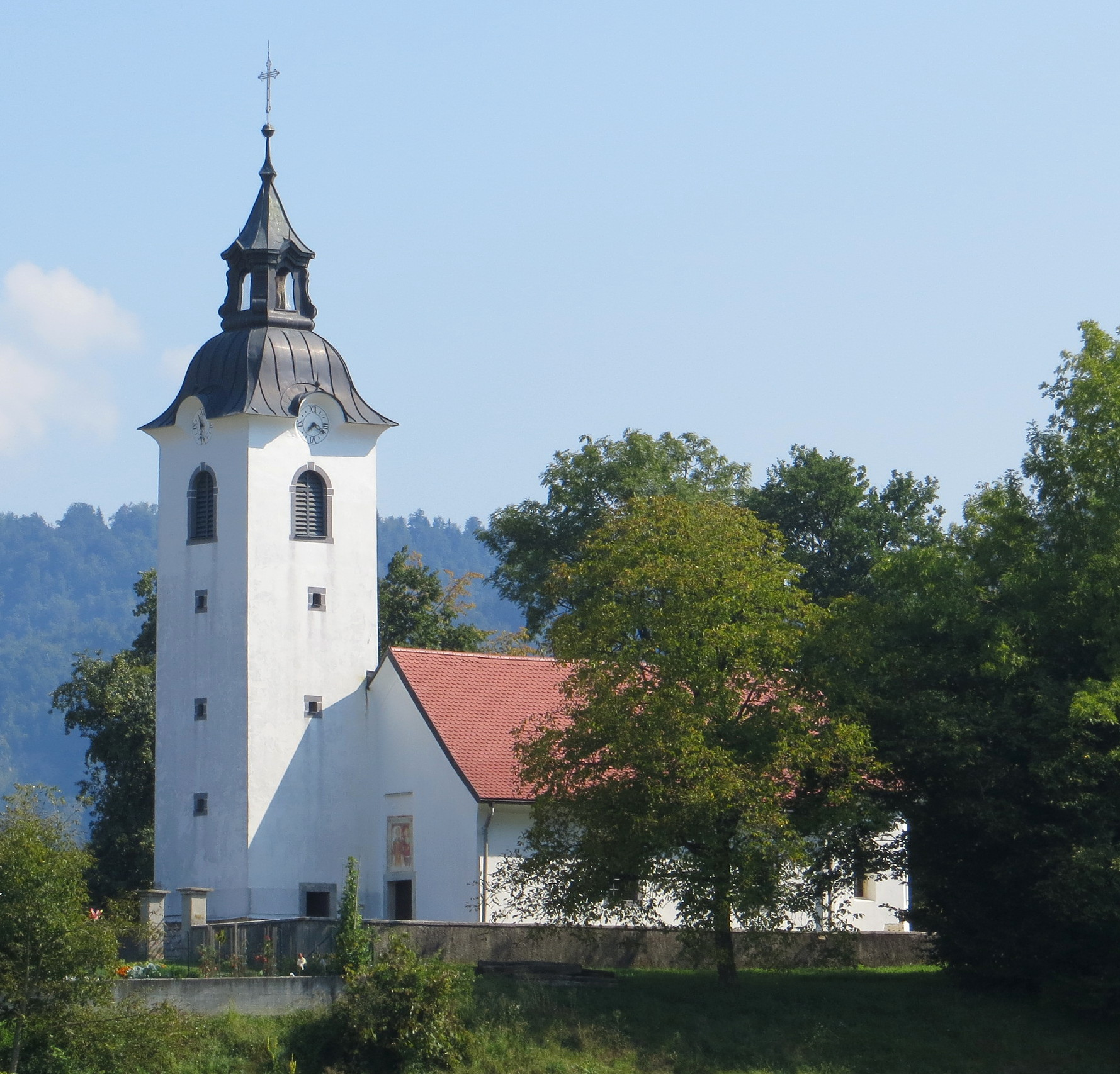 Saint Oswald's Church in Volčji Potok, Municipality of Kamnik, Slovenia